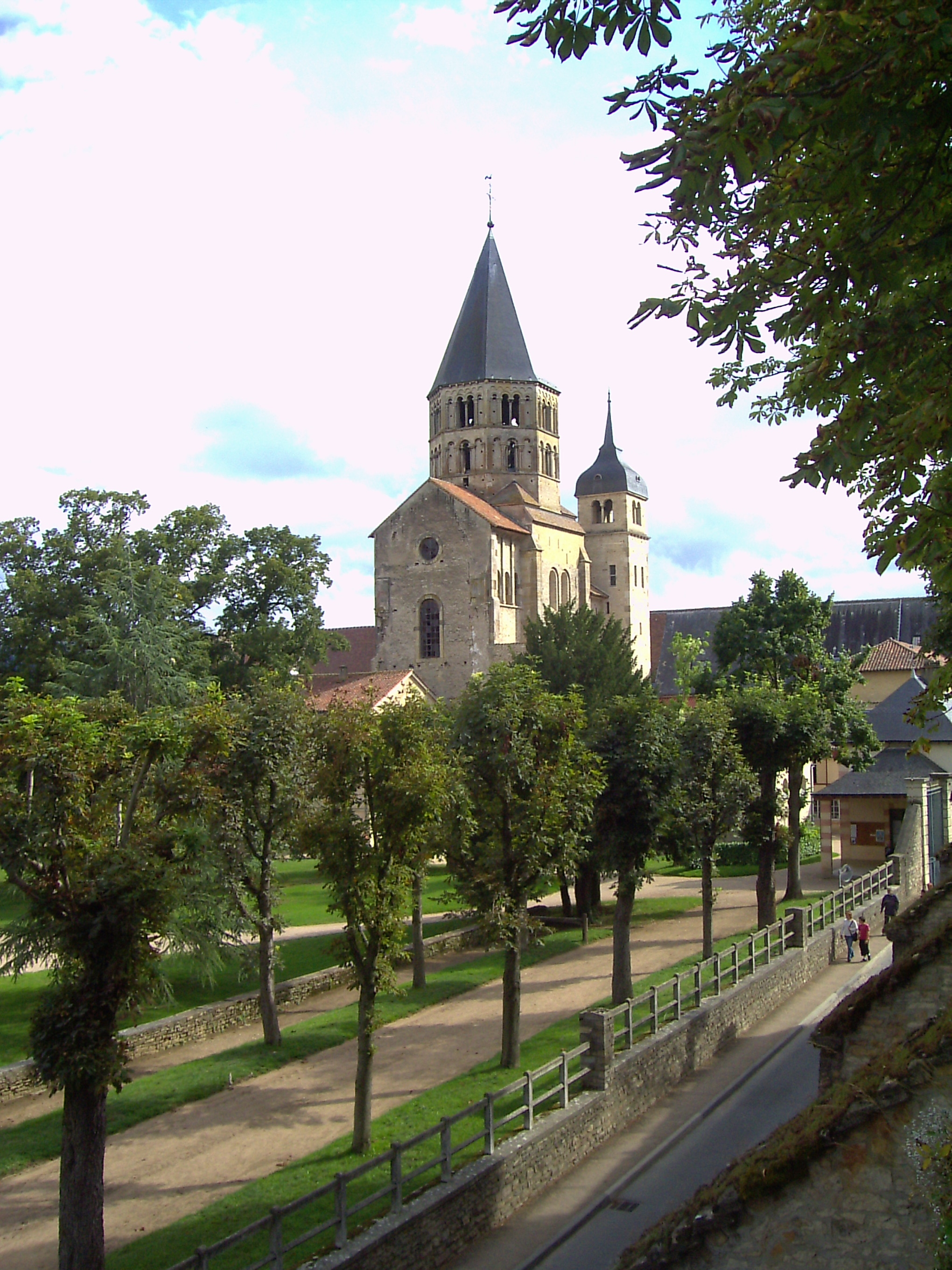 Cluny